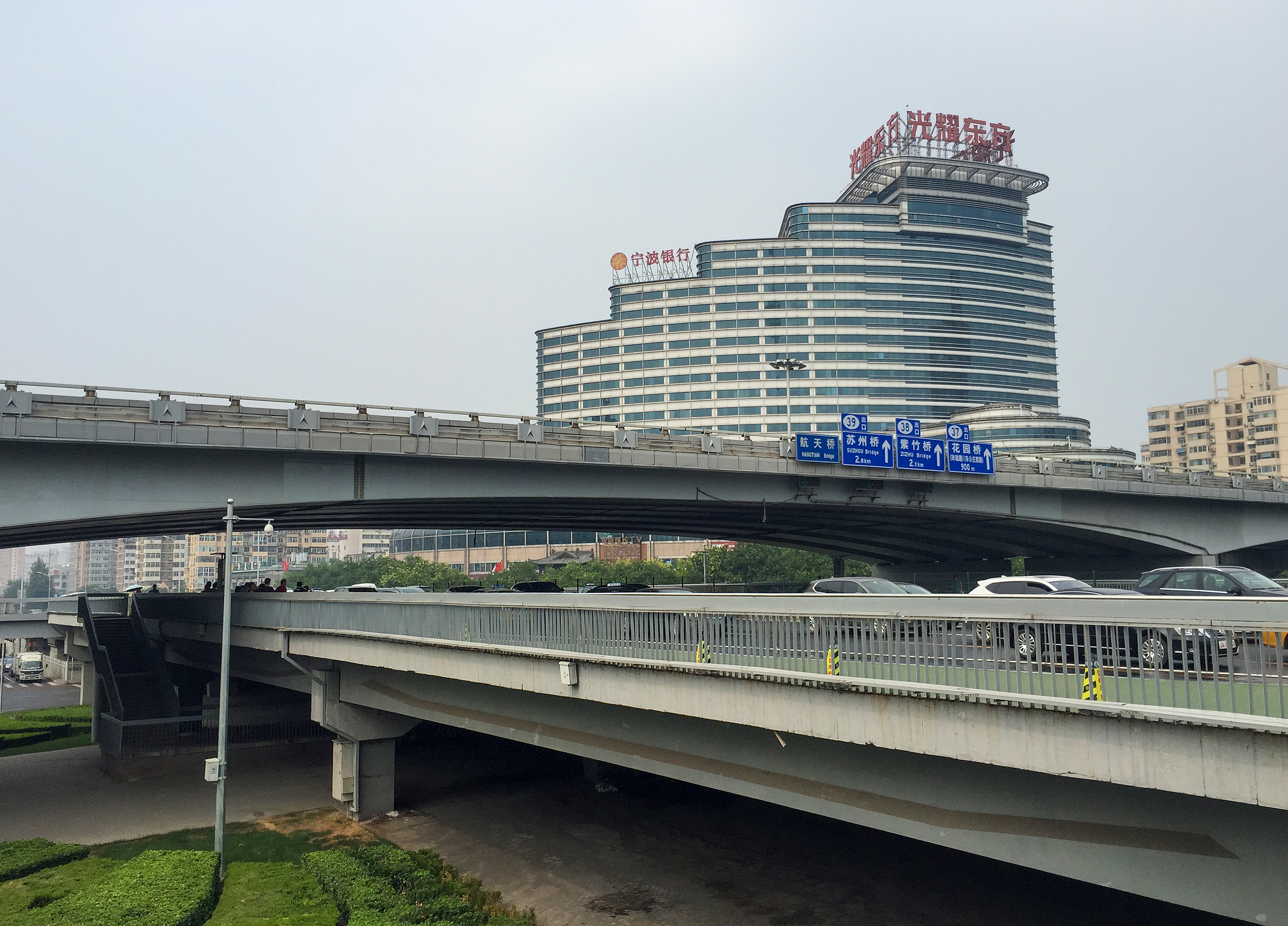 View from the southwest.